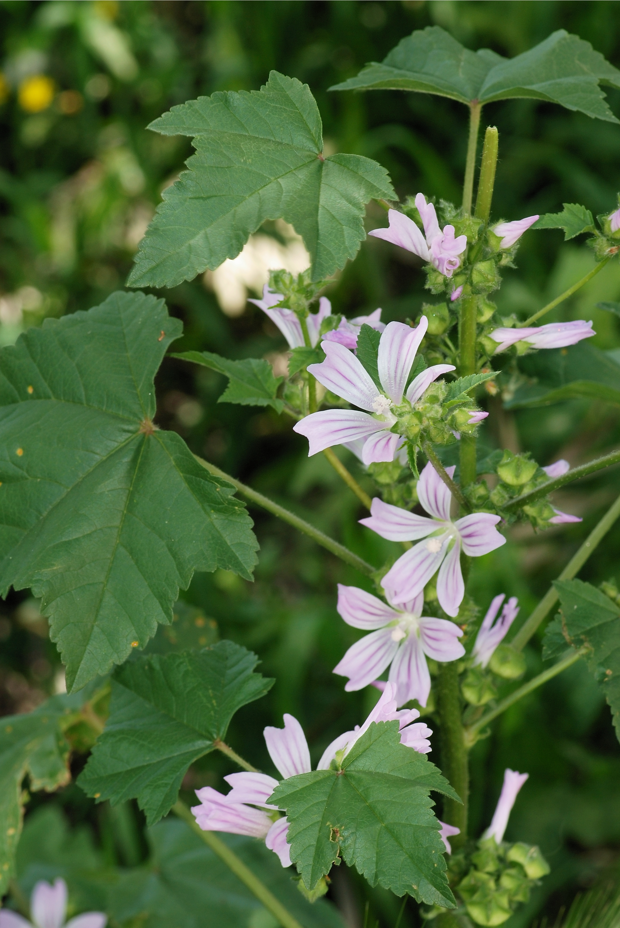 Small Tree Mallow (Lavatera cretica).